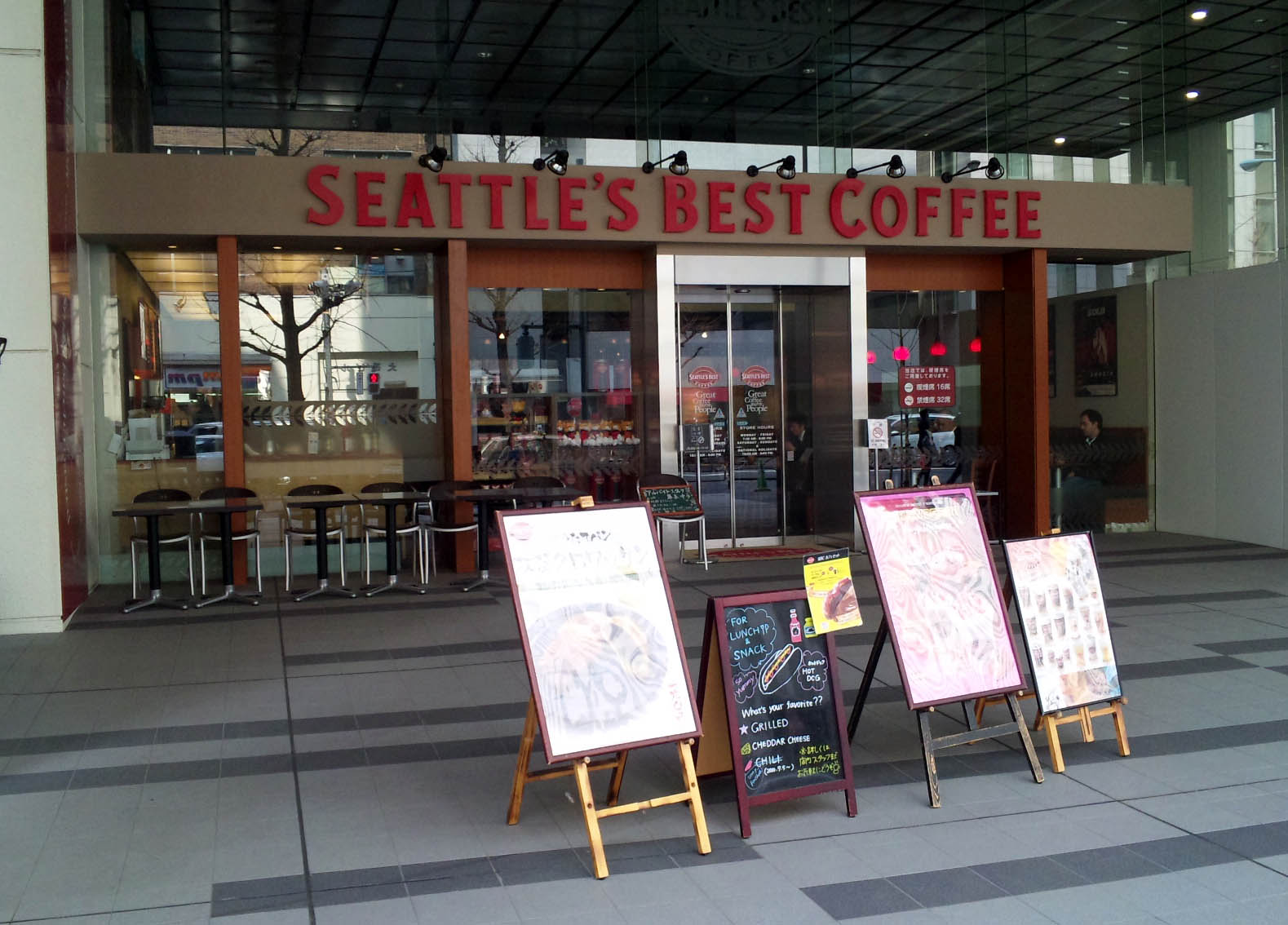 shiatolls best coffee in Japan